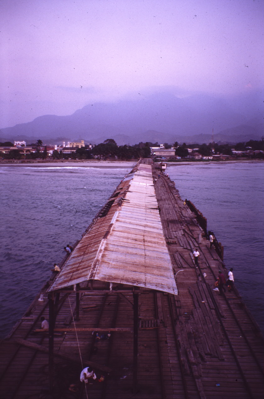 Tela, Honduras. Pier used to load bananas.